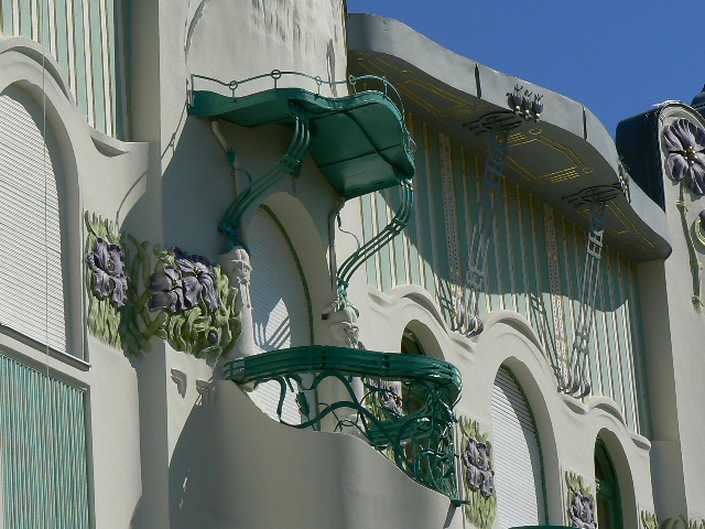 Art Nouveau balcony, canopy and wrought iron railing — Reök Palace in Szeged, Hungary.